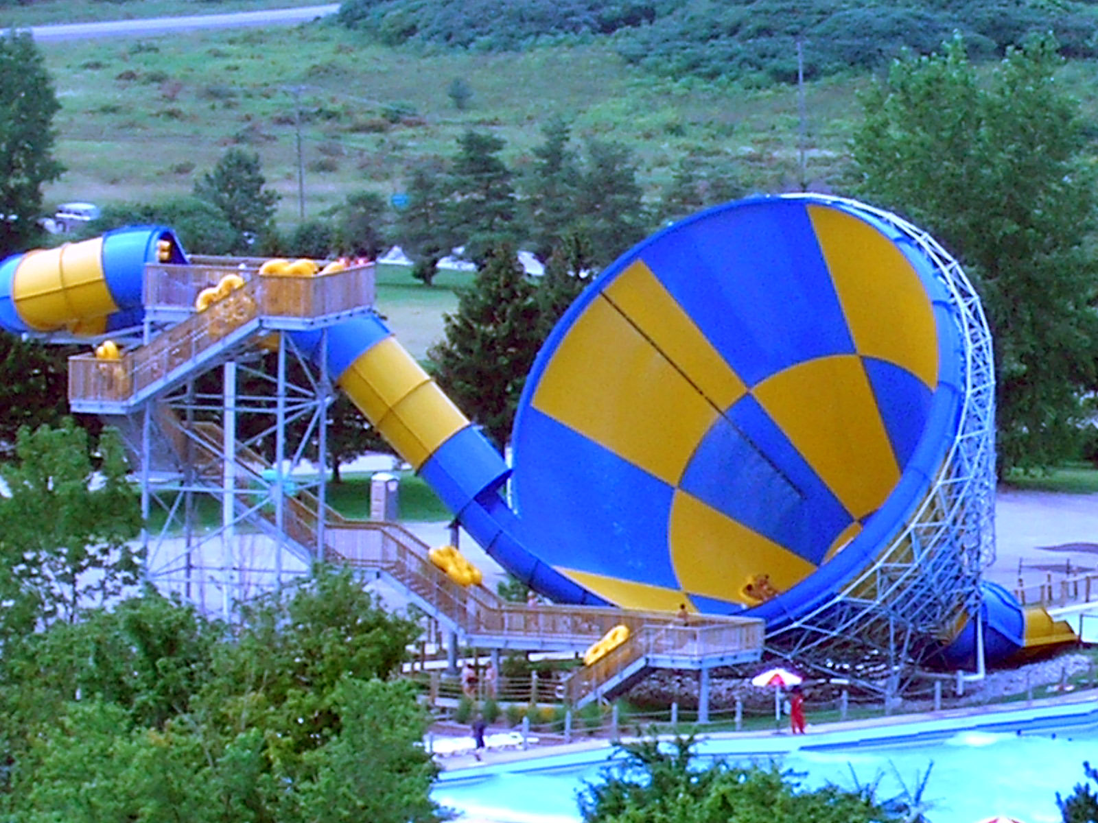 Picture taken by myself at Darien Lake on 082406 from the top of the Giant Wheel.